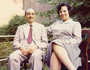 Photo of Dr. Fawzia Fahim and her husband, Salah. London, September 1976. Personal photo.